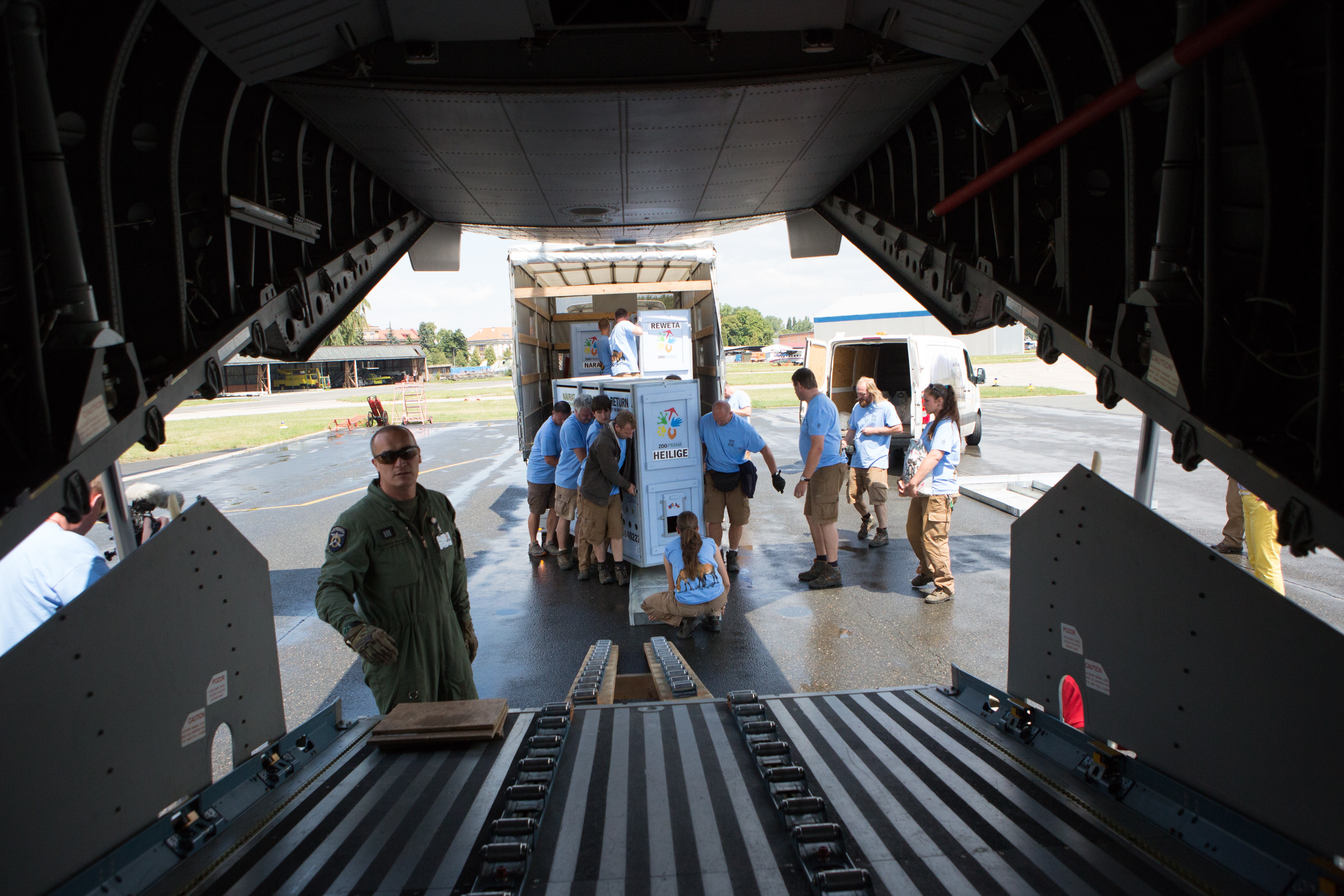 Sixth year of Return of the Wild Horses Project 2